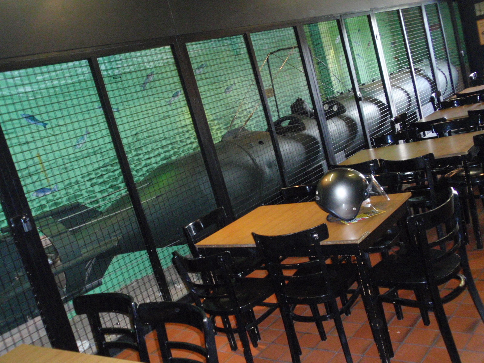 British Mark 2 Chariot manned torpedo from World War II, at Eden Camp Museum in England